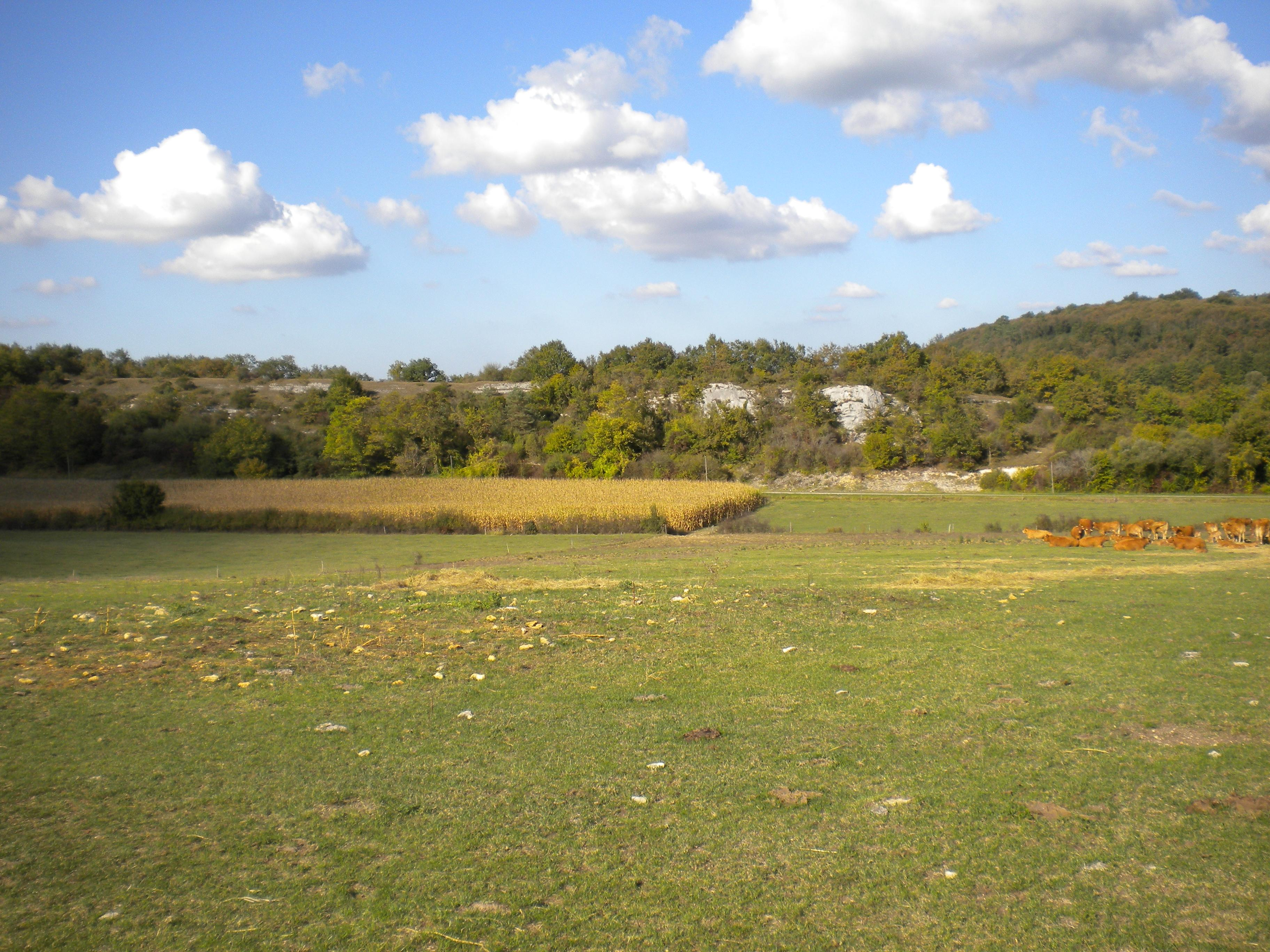 The northwestern termination of the Mareuil anticline. Visible is the Upper Turonian (Angoumian) limestone cliff dipping 35° to the northnortheast.